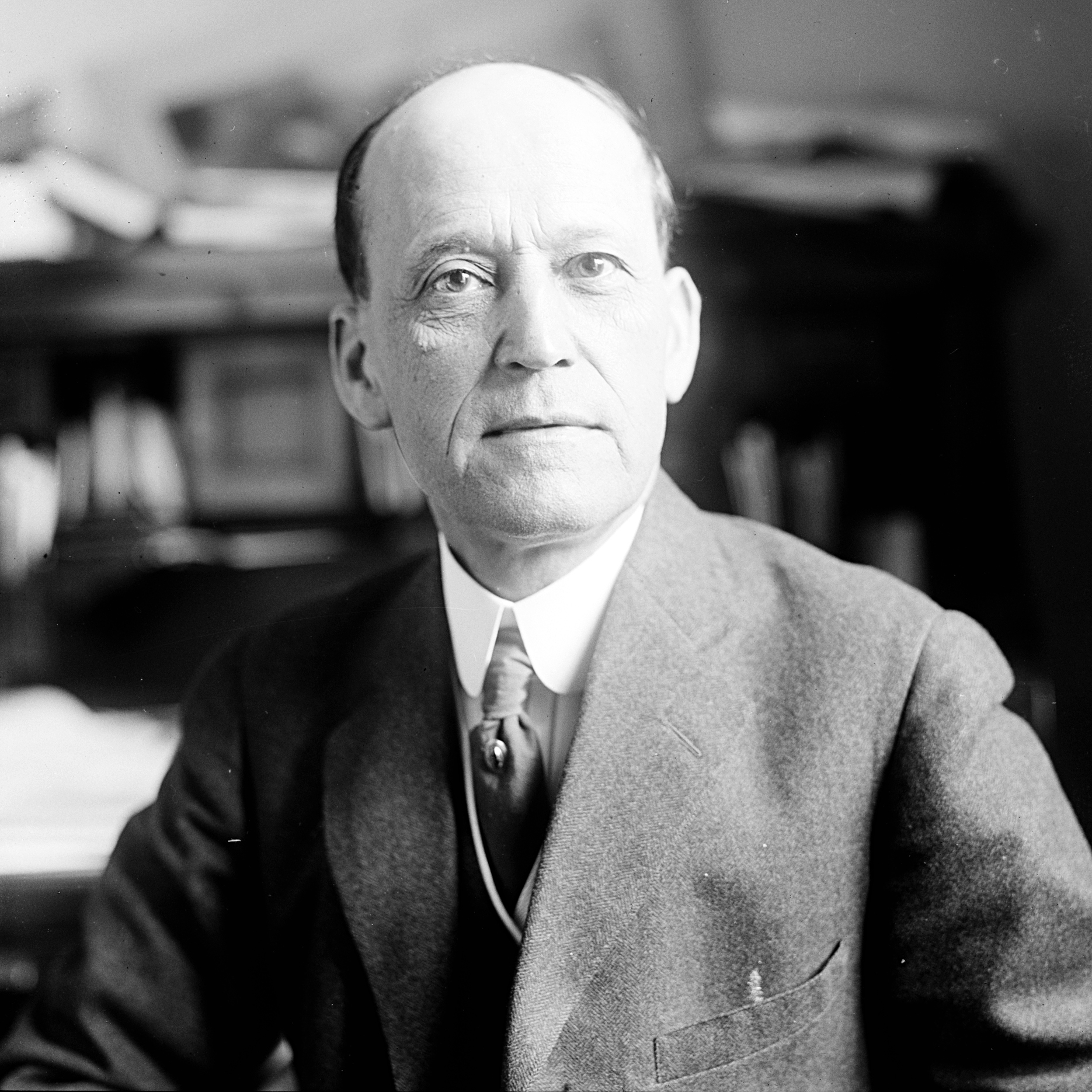 Anderson Howell Walters, US Representative from Pennsylvania